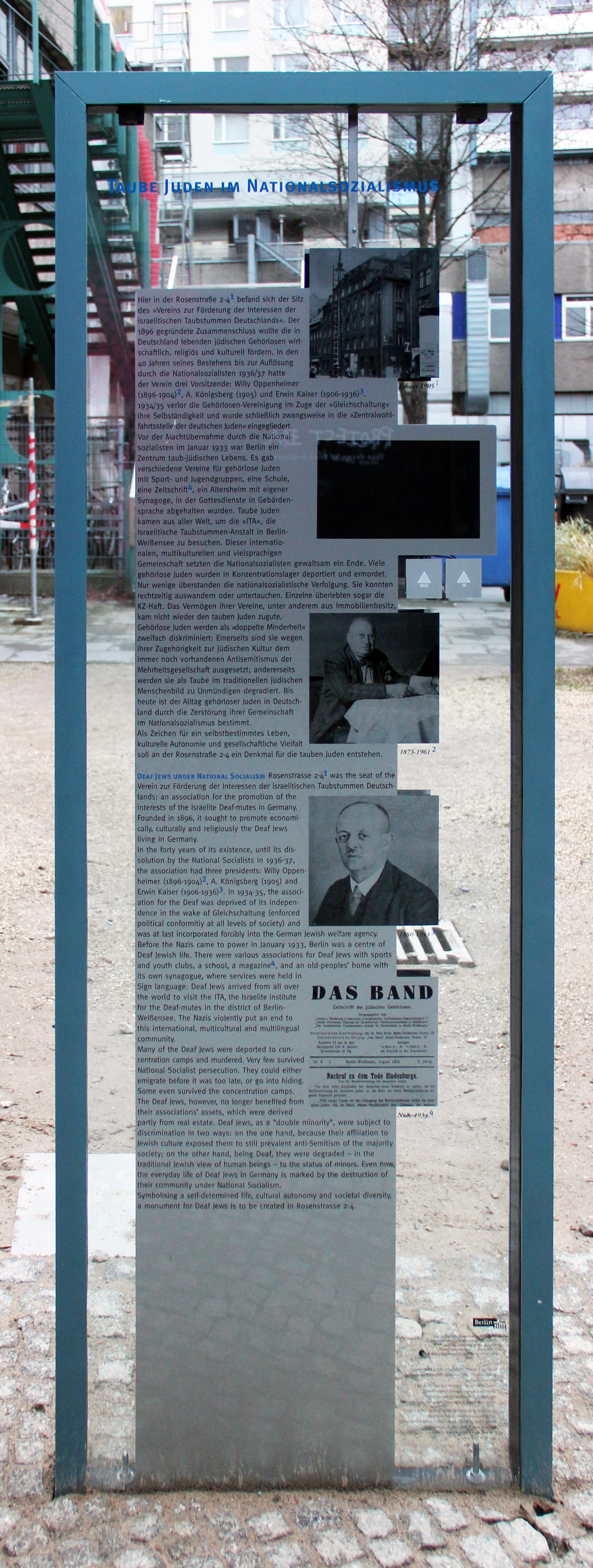 Memorial plaque, Taube Juden, Rosenstraße 16, Berlin-Mitte, Germany